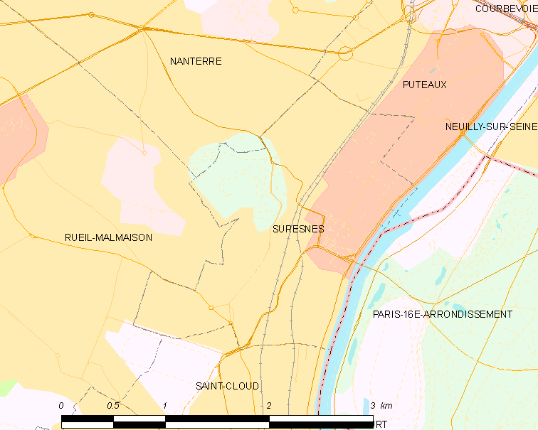 Map of French municipality Suresnes